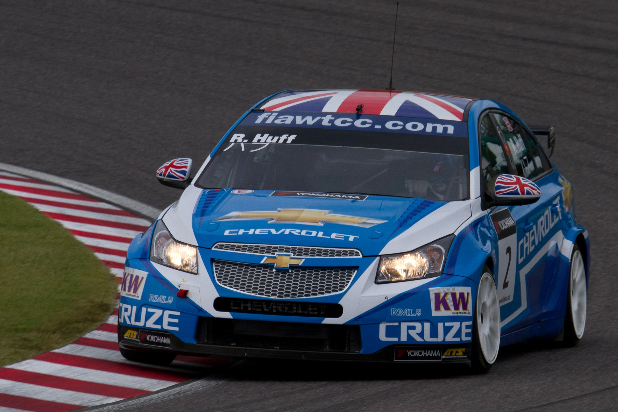 World Touring Car Championship 2011 Race of Japan: Robert Huff (Chevrolet) during the qualify session on Saturday.